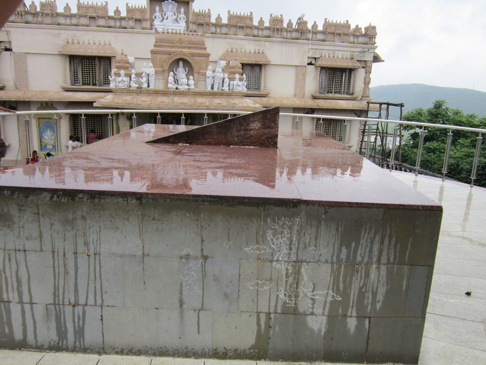 shadow time machine/clock